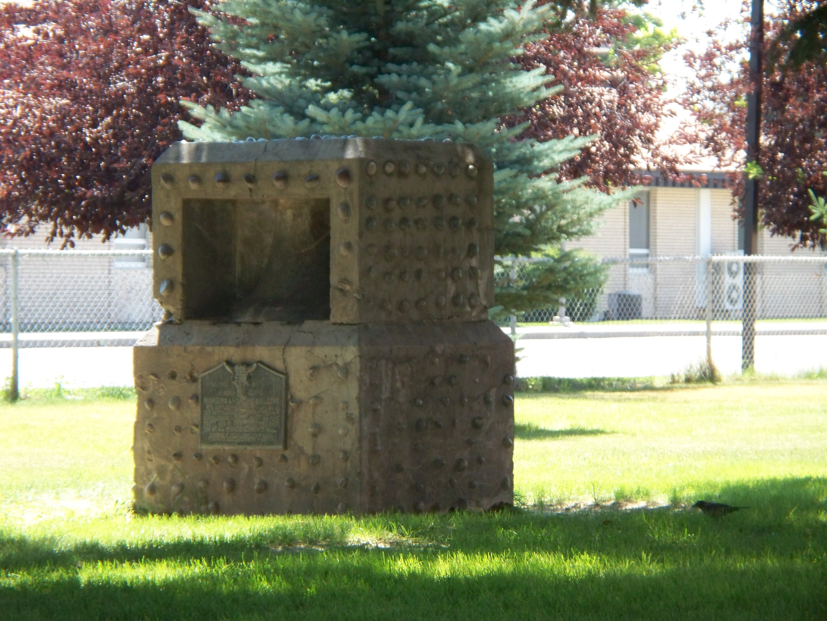 The plaque on on the monument reads: Erected July 4, 1937. In honor of the pioneers and home builders who settled this community and built our schoolhouse and church. The first school, located about 180 feet north and 60 feet west of this spot, was an all purpose community hall. Sponsored by Troops 12 and 412 of Ammon, Teton Peaks Council, Boy Scouts of America.